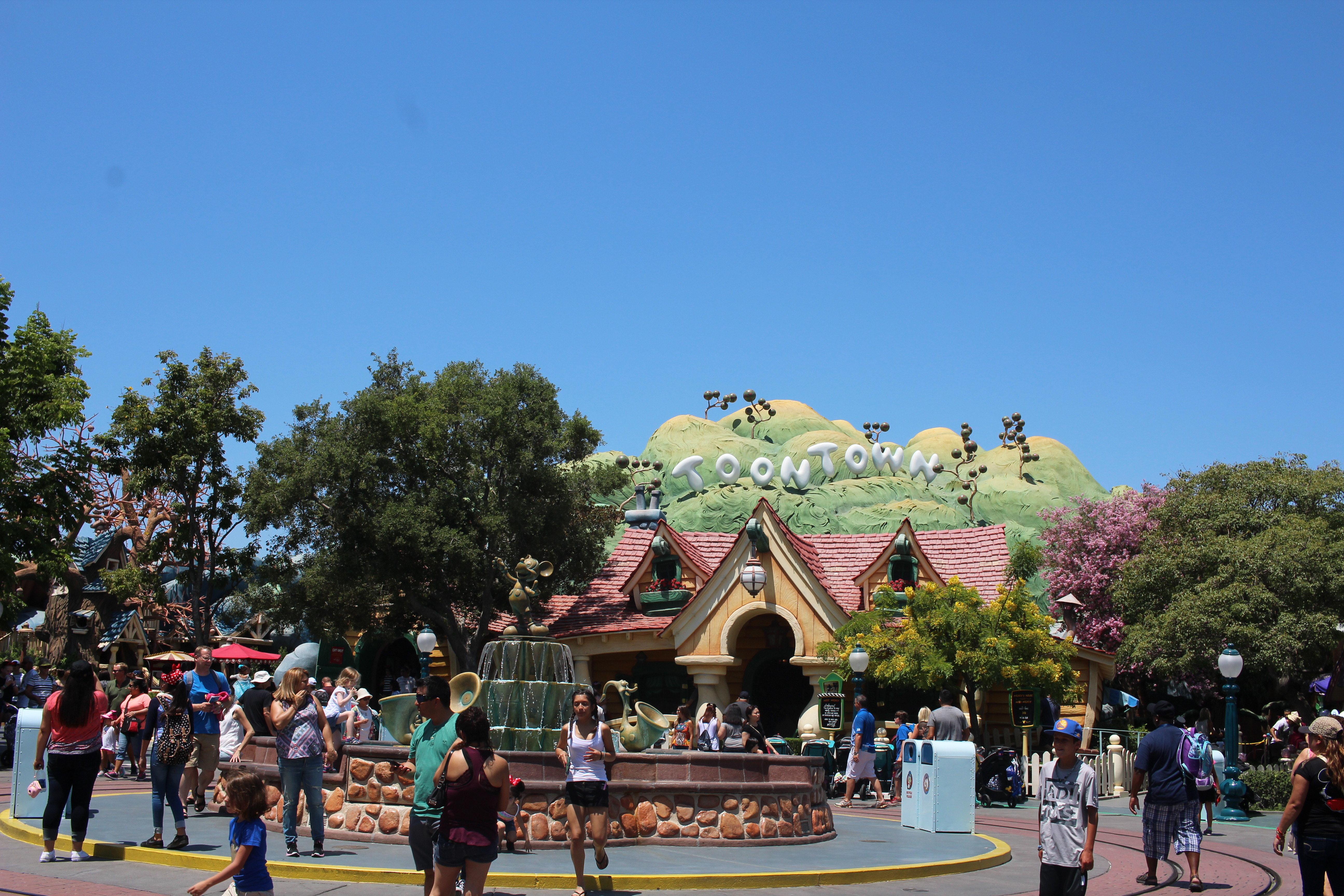 Toontown at Disneyland.